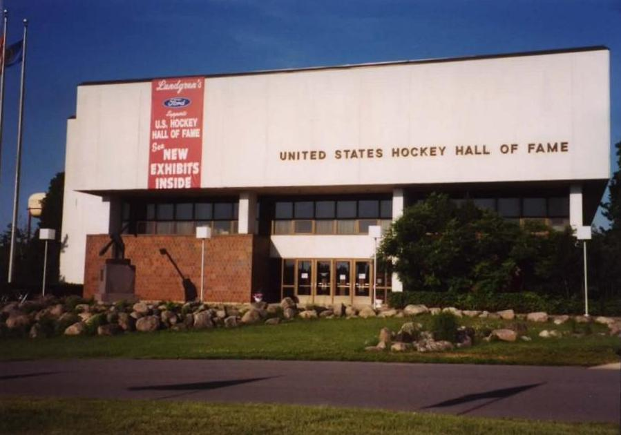 Picture of US Hockey Hall of Fame.